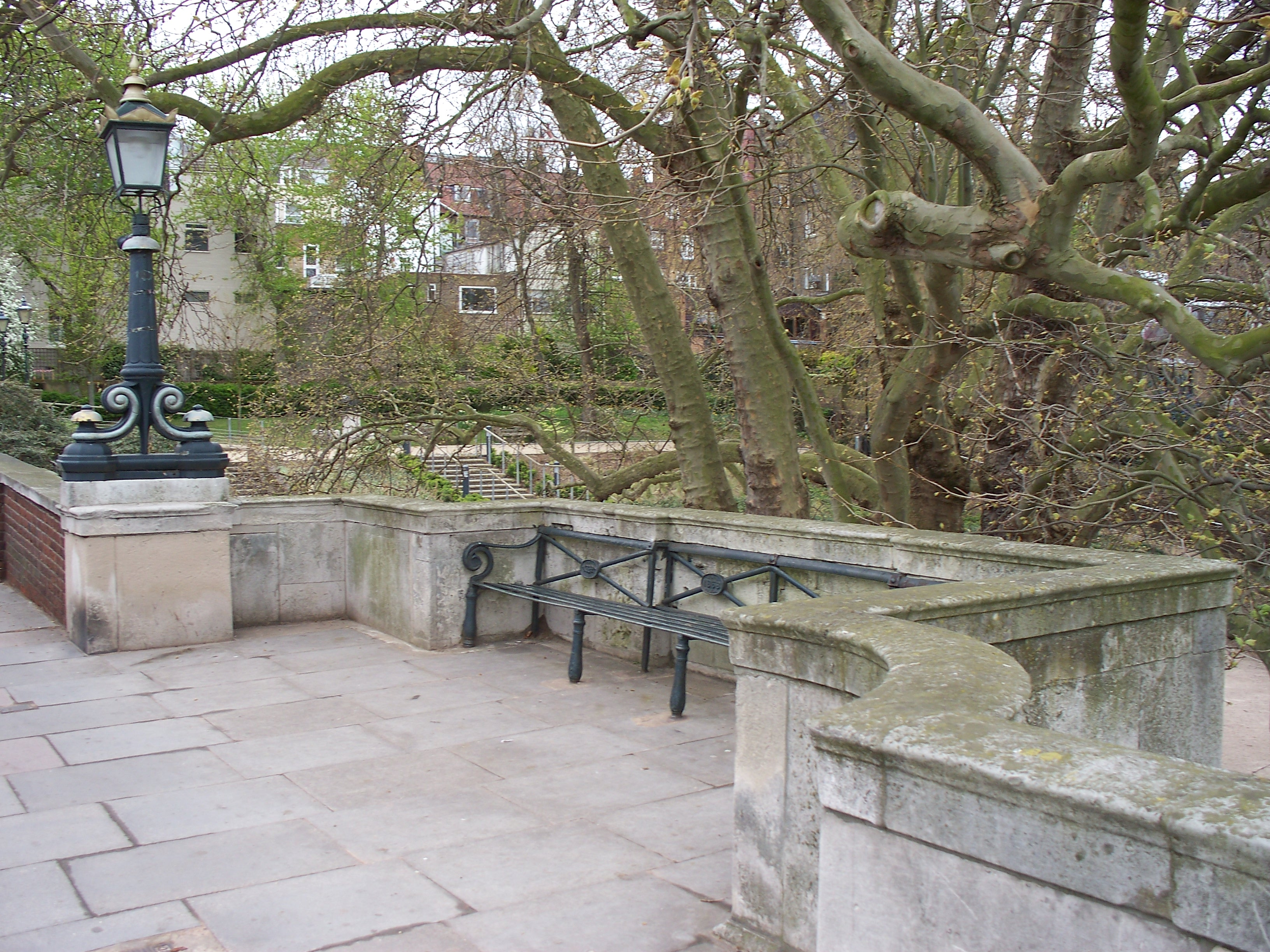 Site of the former tollbooth, Richmond Bridge, Richmond, London. Photograph taken in a public location in the UK of a building on permanent public display, and exempt from copyright under Section 62 of the Copyright Designs & Patents Act 1988 ("it is not an infringement of copyright to film, photograph, broadcast or make a graphic image of a building, sculpture, models for buildings or work of artistic craftsmanship if that work is permanently situated in a public place or in premises open to the public")